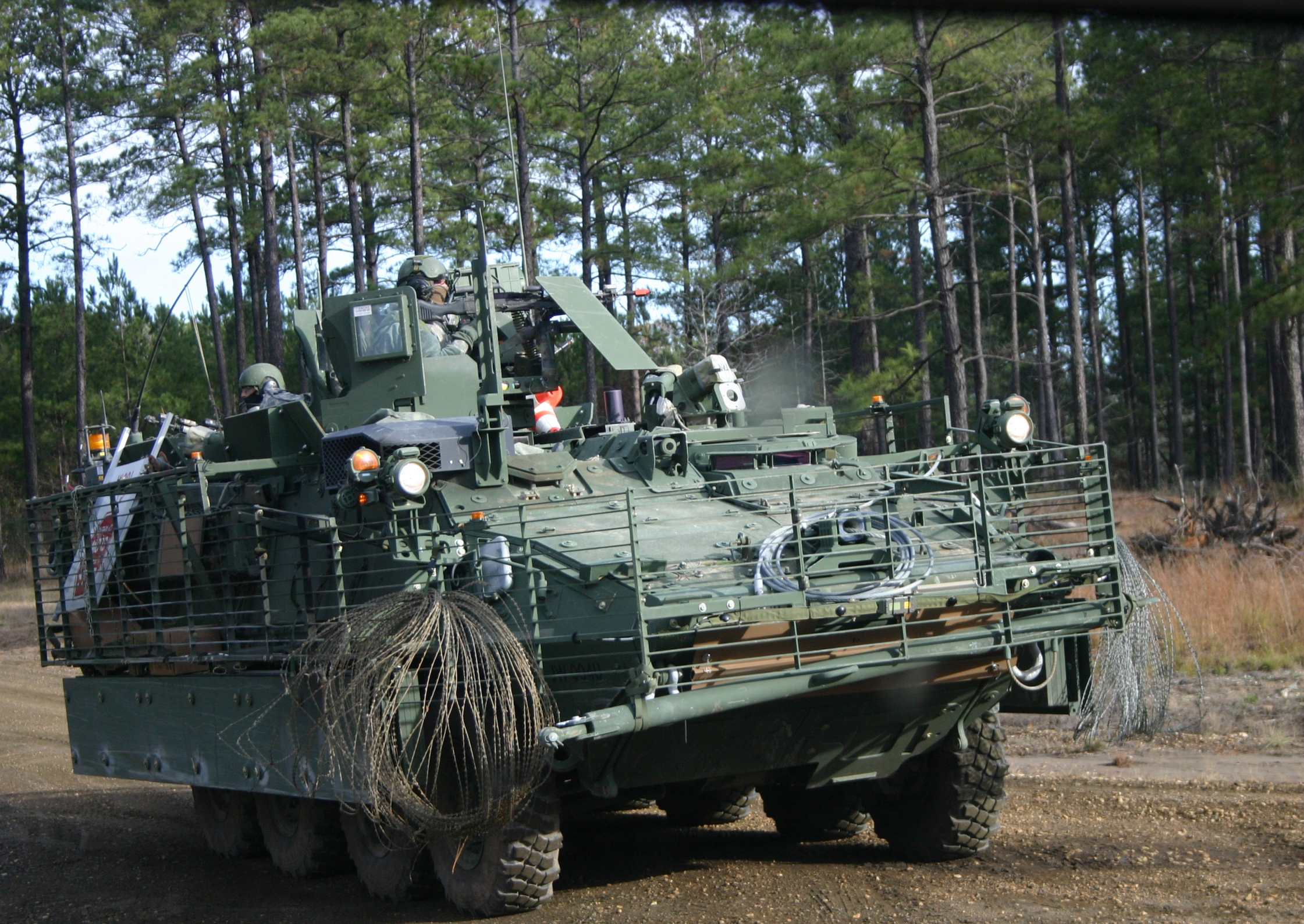 A Stryker vehicle from the 56th SBCT, Pennsylvania National Guard moves out to conduct joint operations during JRTC rotation 09-02 at Ft. Polk, La. (Photo by Casey Bain, JFIIT)